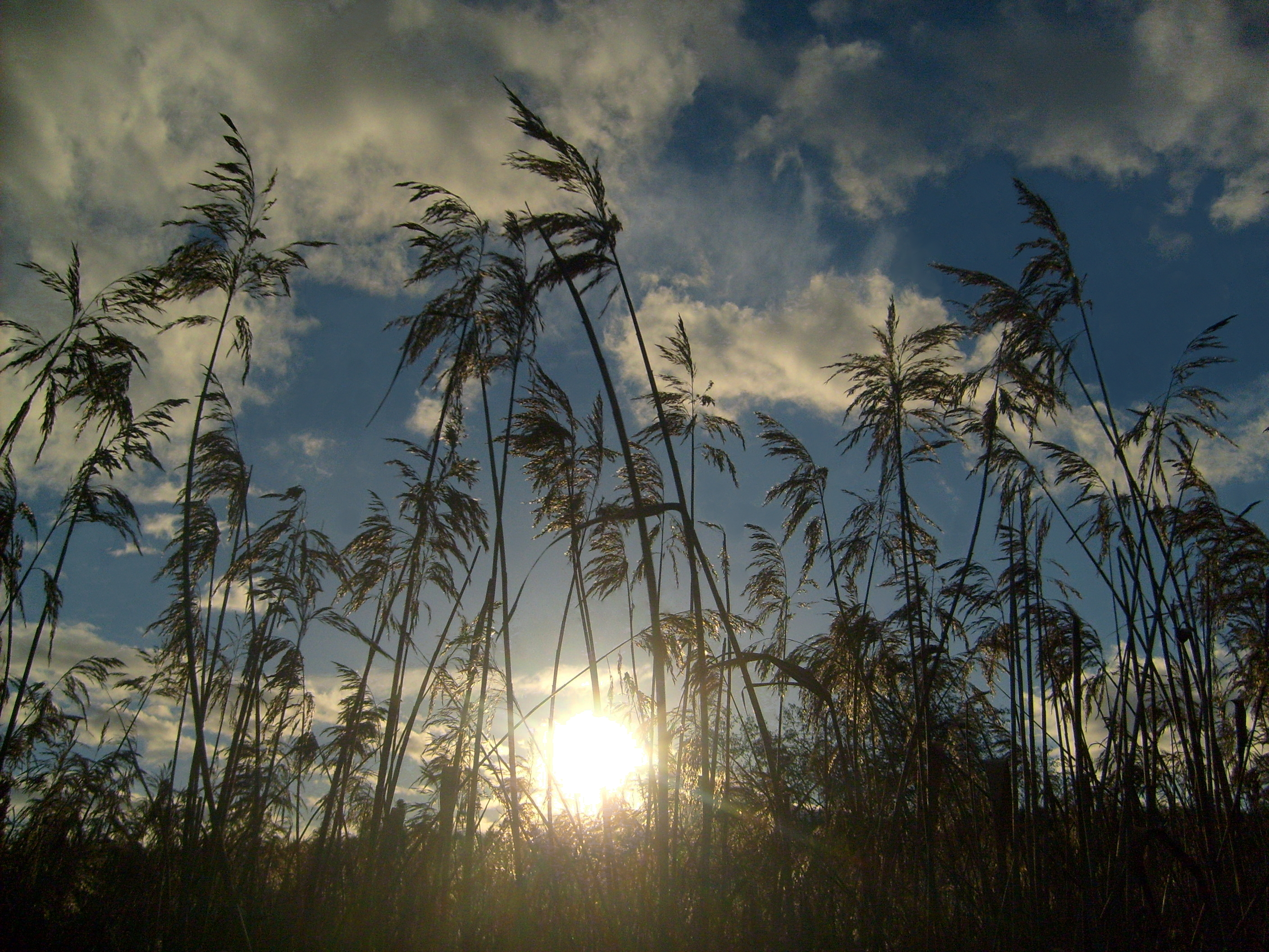 Reed at the Mindelsee